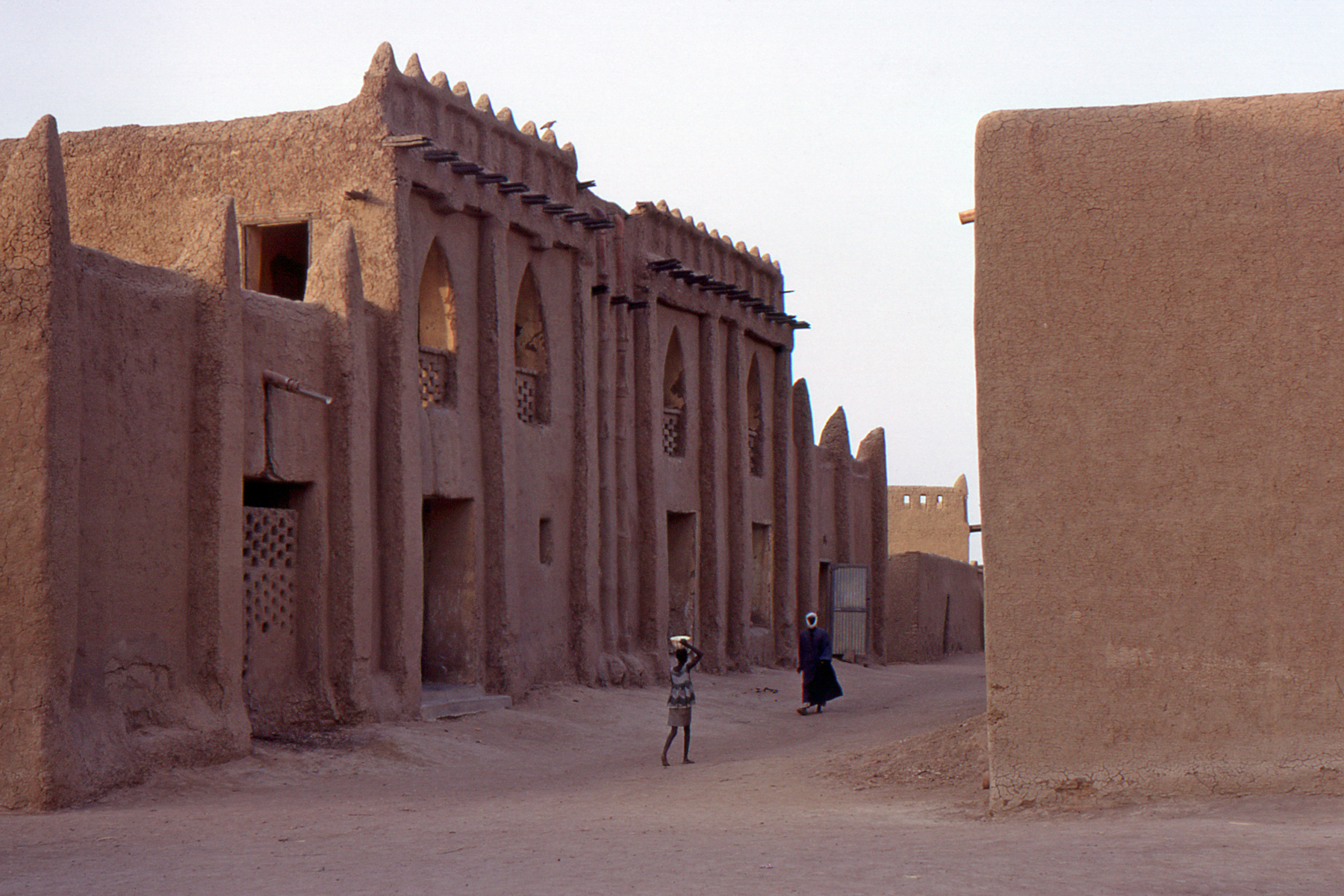 A street in Djenne, Mopti, Mali, near the Grand Mosque in the early morning. Capture Date 1972/12/27. Scan Kodachrome slide.